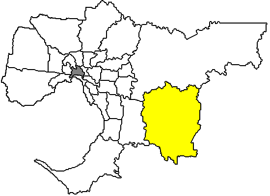 Map of Melbourne, Victoria (Australia), LGA of Cardinia Shire highlighted